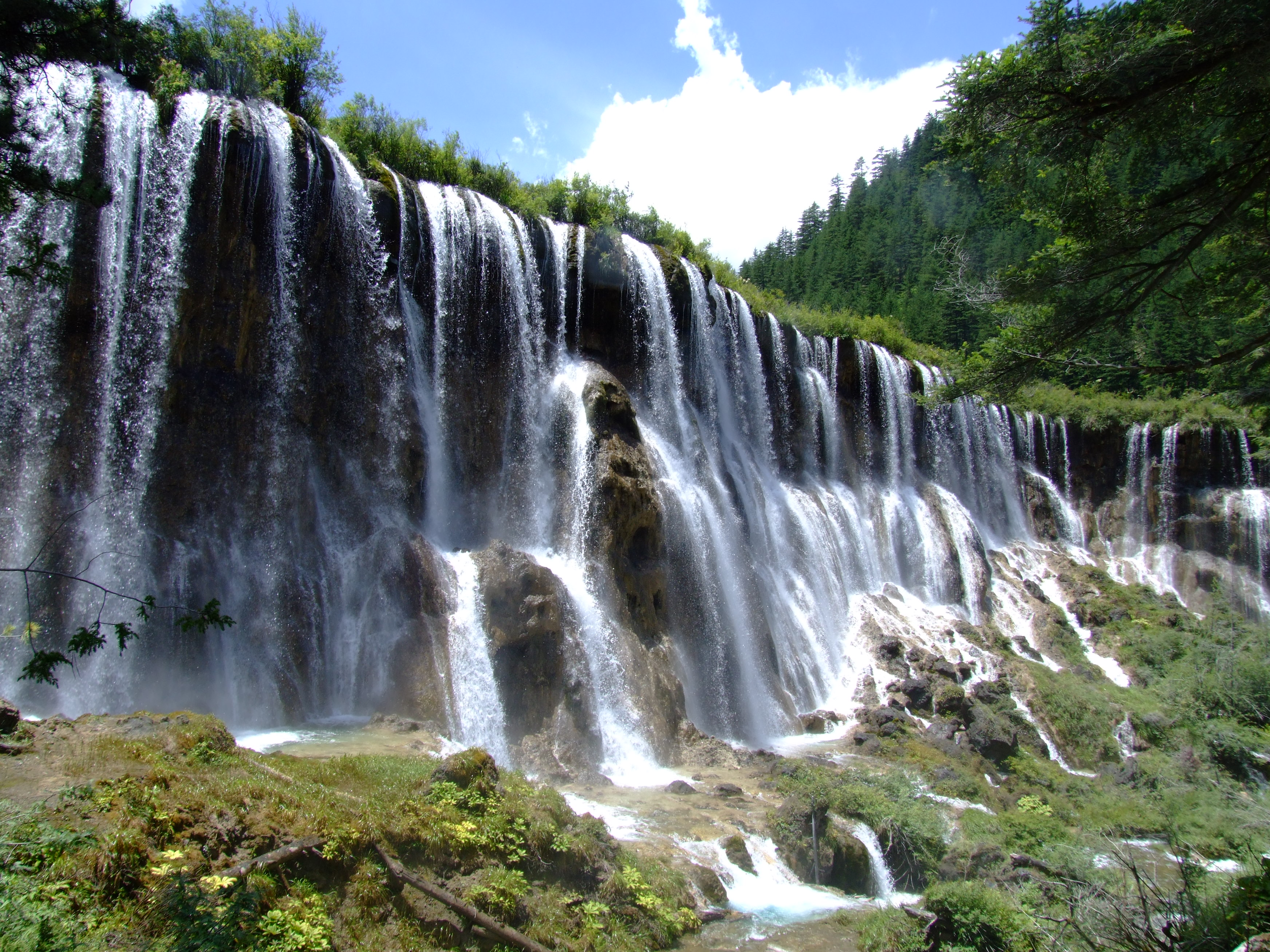 Nuorilang Waterfall in Jiuzhaigou Valley